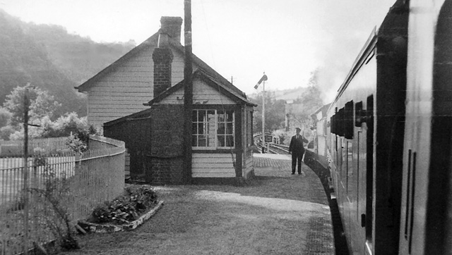 Conwil Station, from train. View eastward, towards Lampeter and Aberystwyth; ex-Great Western Aberystwyth - Lampeter - Carmarthen line. I took the photograph from the 17.50 train from Carmarthen on a journey to Aberystwyth. No one seems to have got on or off on this June 1962 occasion, so not surprisingly passenger services ceased on 22/2/65, when the line was closed completely (Aberystwyth - Strata Florida two months earlier, owing to flood damage); freight traffic, principally milk and agricultural, continued between Carmarthen, Pencader, Lampeter, Newcastle Emlyn and Felin Fach (Aberayron branch) until 1/10/73.